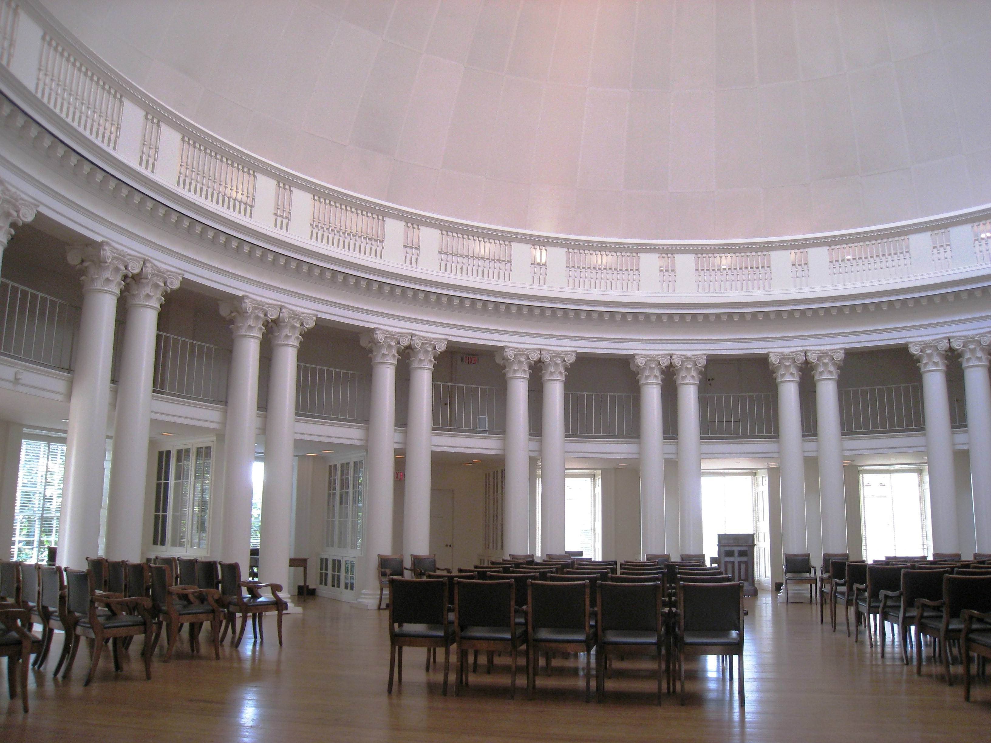 Interior of the Rotunda — University of Virginia. Reversed PD image, contrast slightly altered.